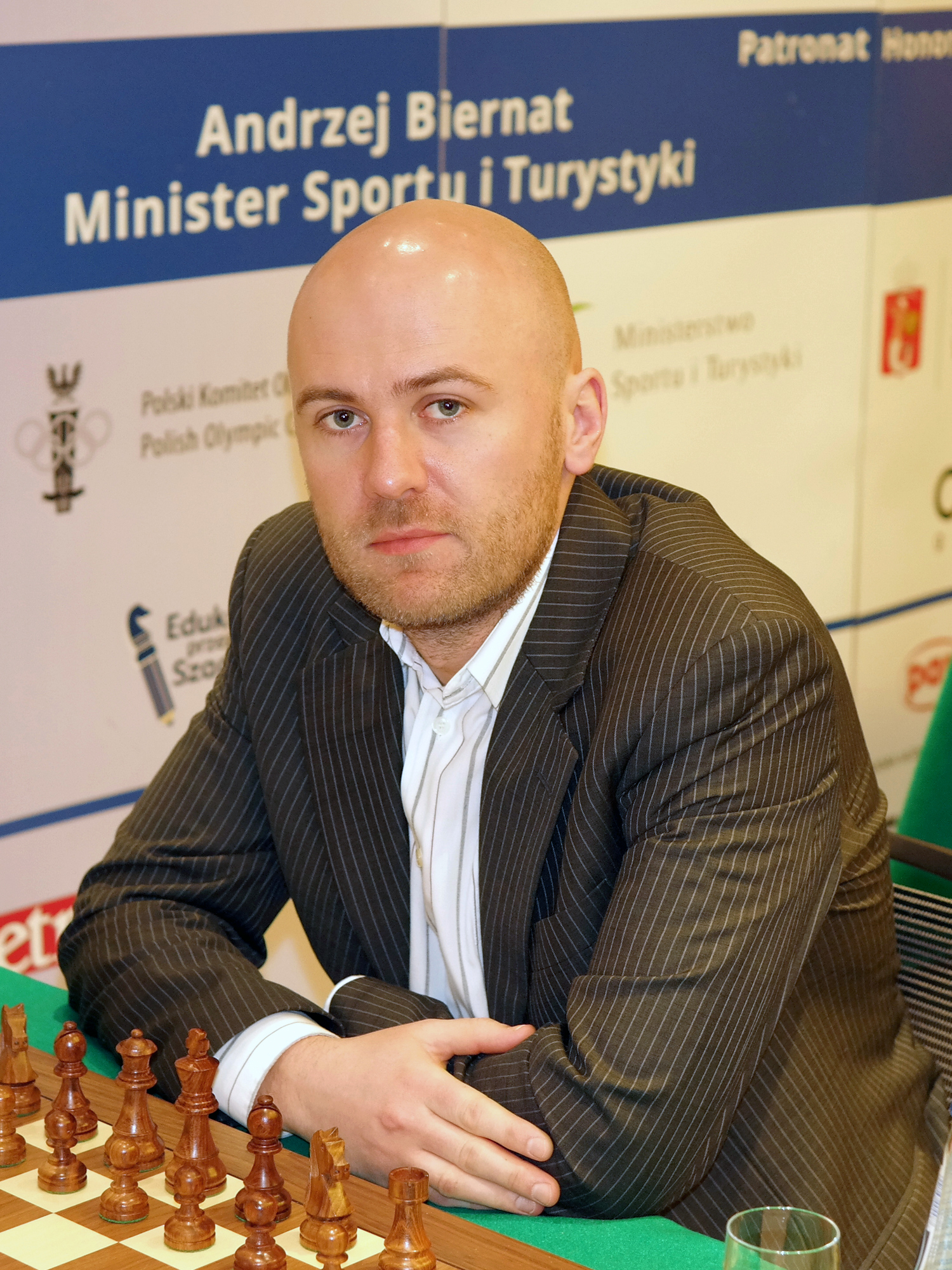 GM Krzysztof Jakubowski, Polish Chess Championship, Warsaw 2014